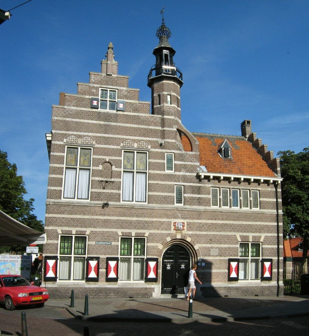 The previous city hall in Ouddorp, The Netherlands. The building is now used for a museum.